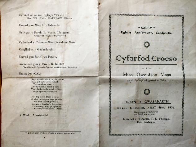 Cyfarfod Croeso Gwenfron Moss 1934. Gwenfron Moss was a Welsh speaking missionary.